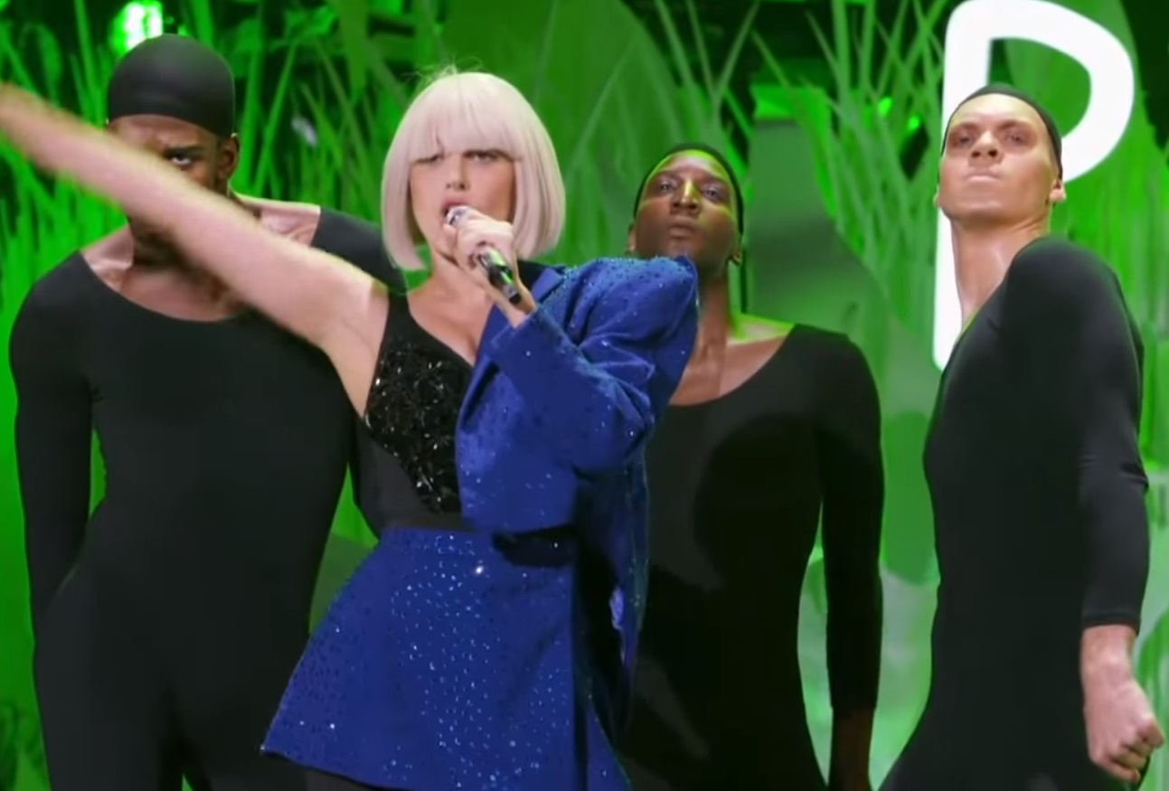 Lady Gaga tears up the VMAs with her dazzling performance of hit single 'Applause'.